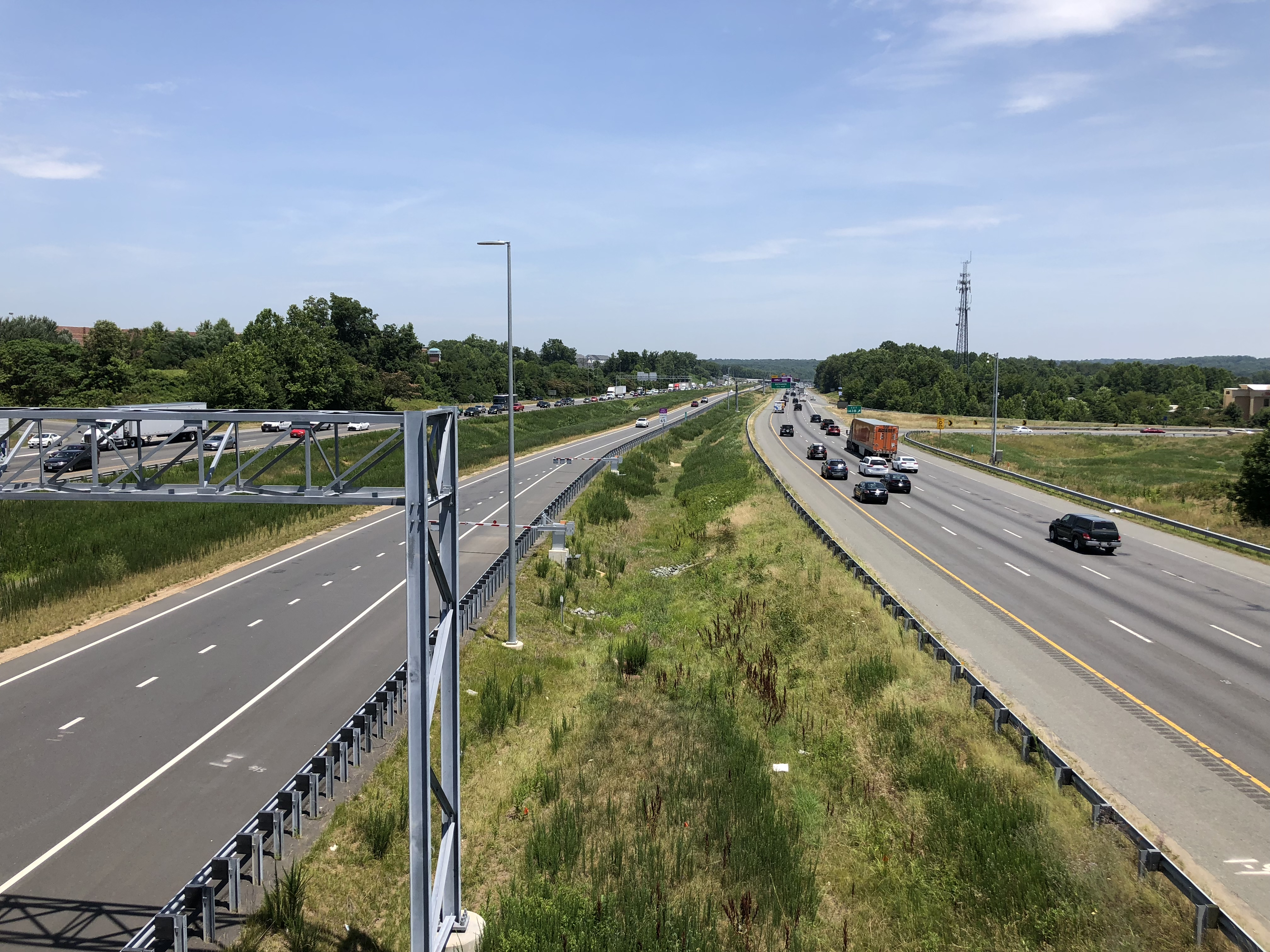 View north along Interstate 95 from the overpass for Virginia State Route 610 (Garrisonville Road) in Garrisonville, Stafford County, Virginia